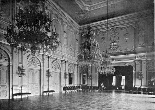 Original description: "The Royal Palace, Belgrade: The Ballroom"